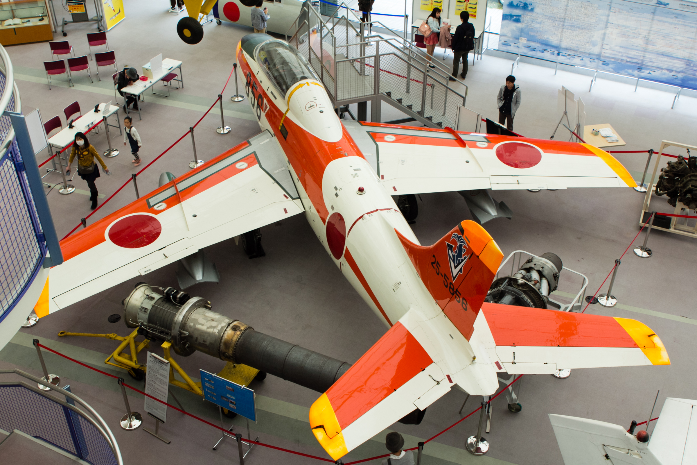 Fuji T-1 at the Tokorozawa Aviation Museum